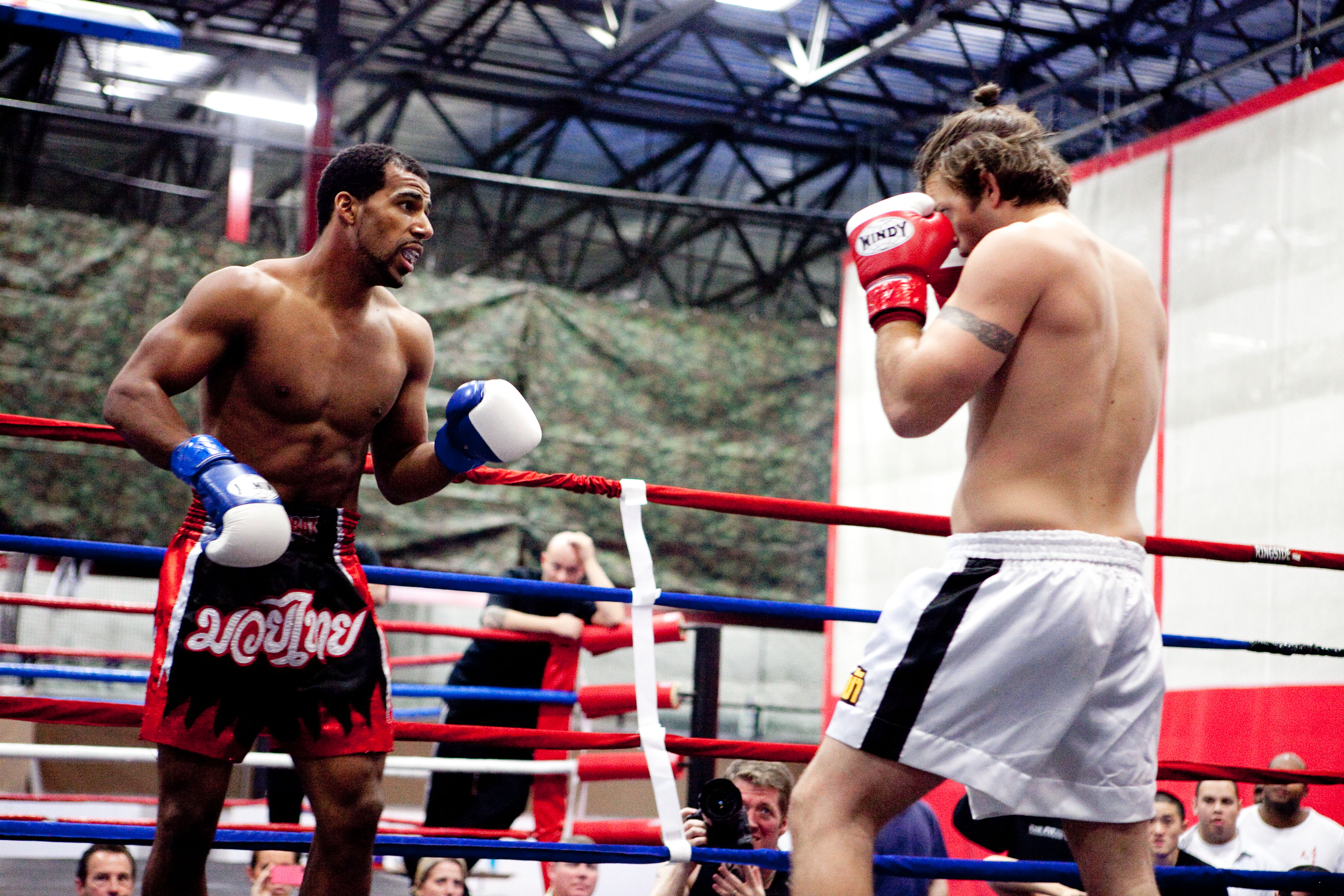 Thai Championship Boxing in Sterling, VA